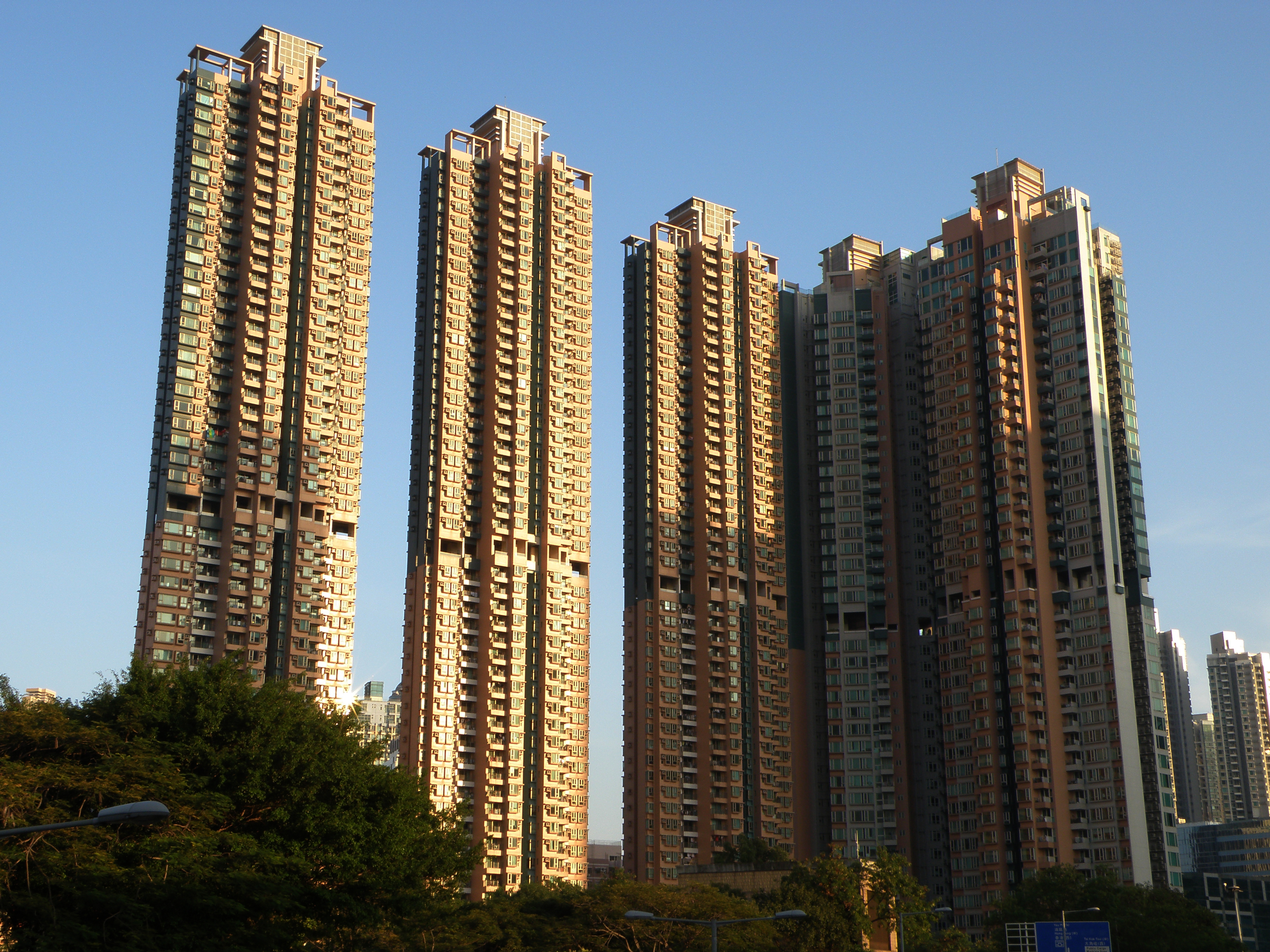 Harbour Green in Tai Kok Tsui, Hong Kong.